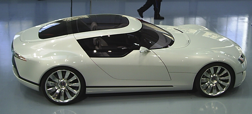 SAAB AERO X shown mars 25 2006 at the Saab Car Museum, Trollhättan, Sweden.